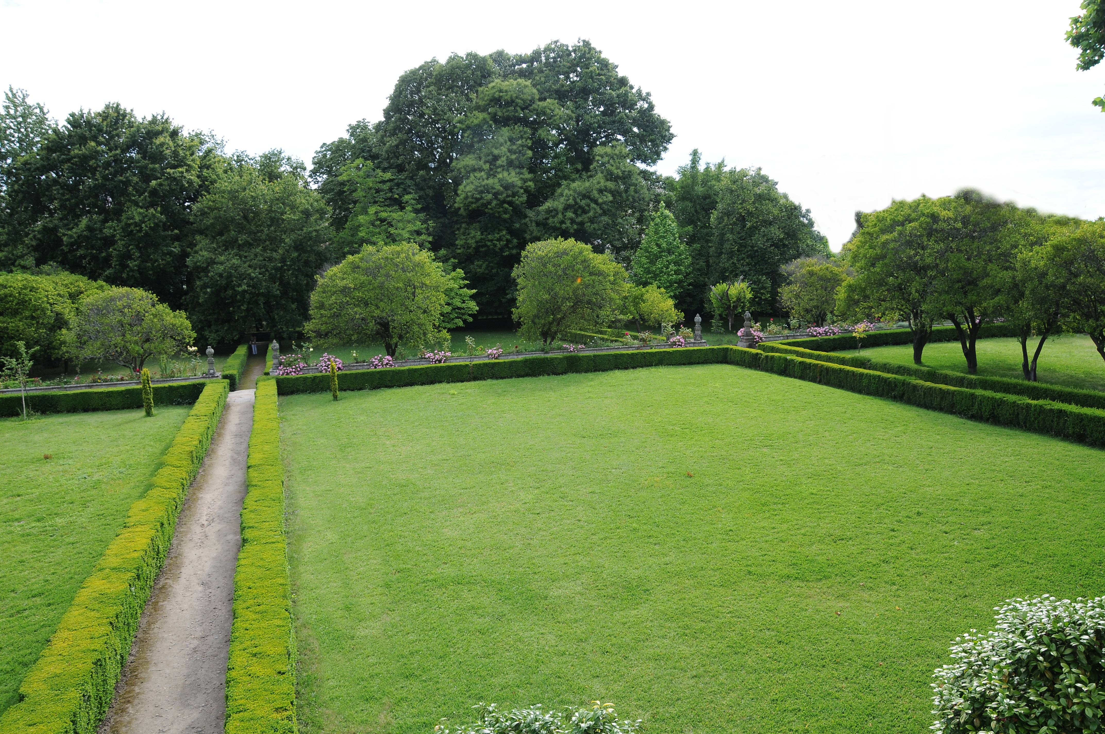 Biscainhos Palace Garden, in Braga, Portugal